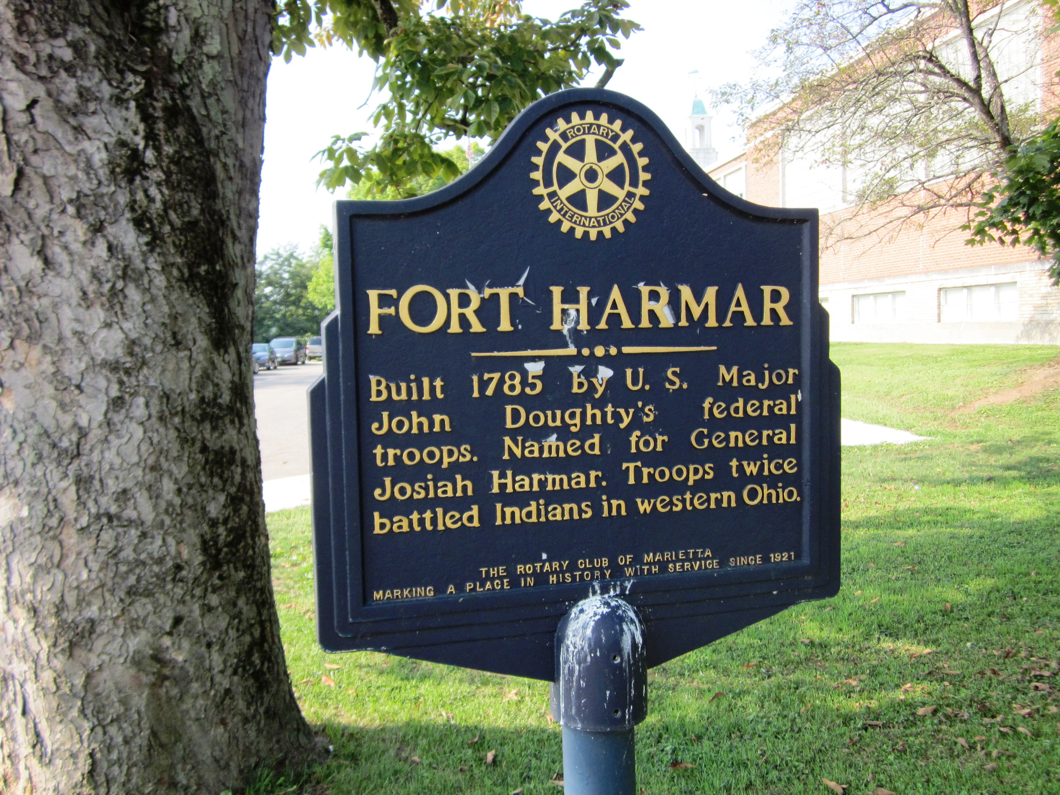 Fort Harmar plaque at Marietta, Ohio, September 2012. I took this photo, and I release to the public domain. ColWilliam (talk) 18:12, 13 September 2012 (UTC)